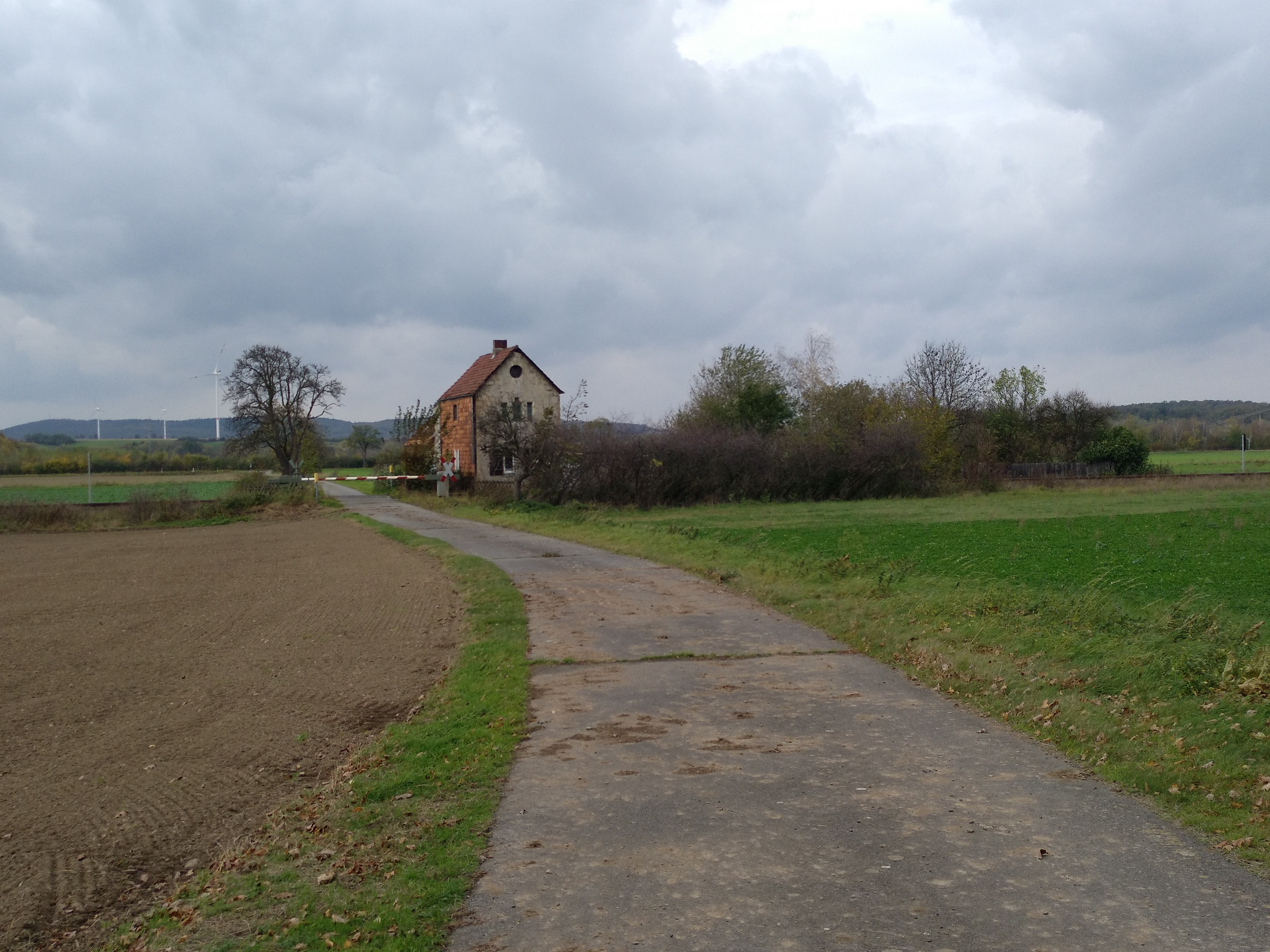 The Steinfeld (Stonefield) near Harlingerode at the approximate position of the lost village Döringerode.